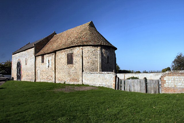 Former priory church of St Margaret, Isleham, Cambridgeshire, seen from the east